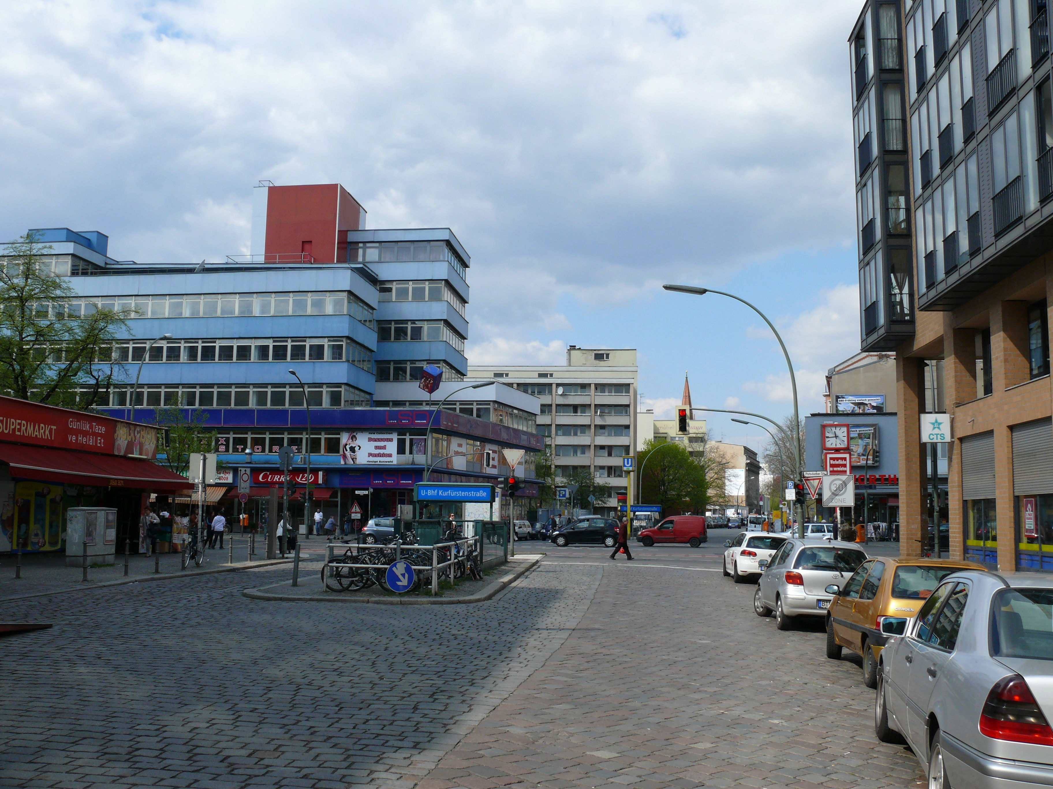 Berlin-Tiergarten Kurfürstenstraße